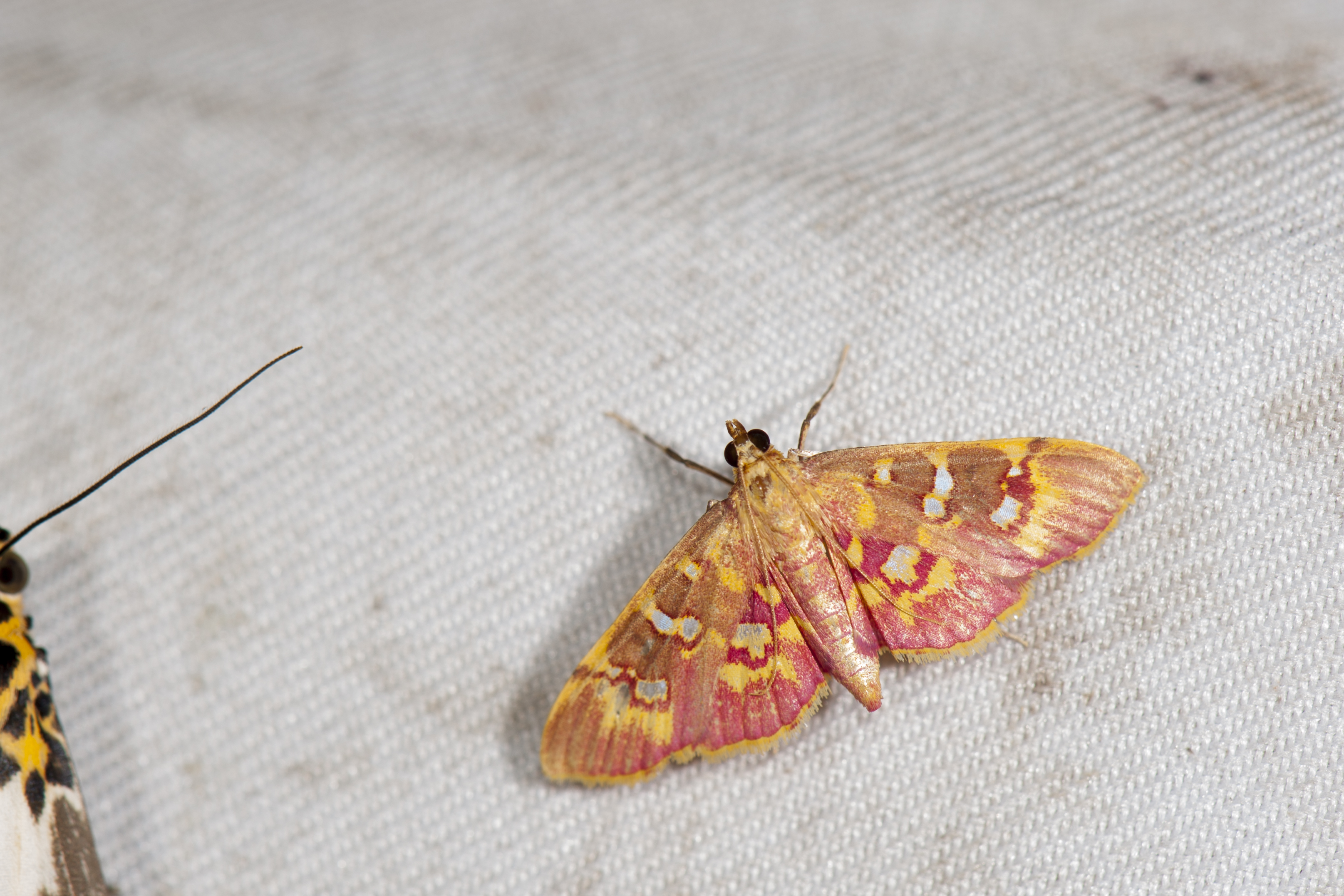 _DSK6936 Rhectothyris gratiosalis